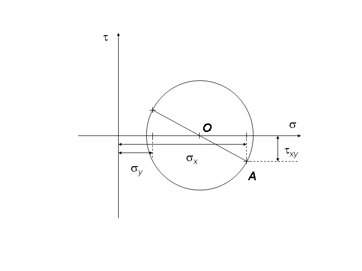 Stage 2 in construction of Mohr's circle. This image is the work of and copyright property of Anthony Cutler